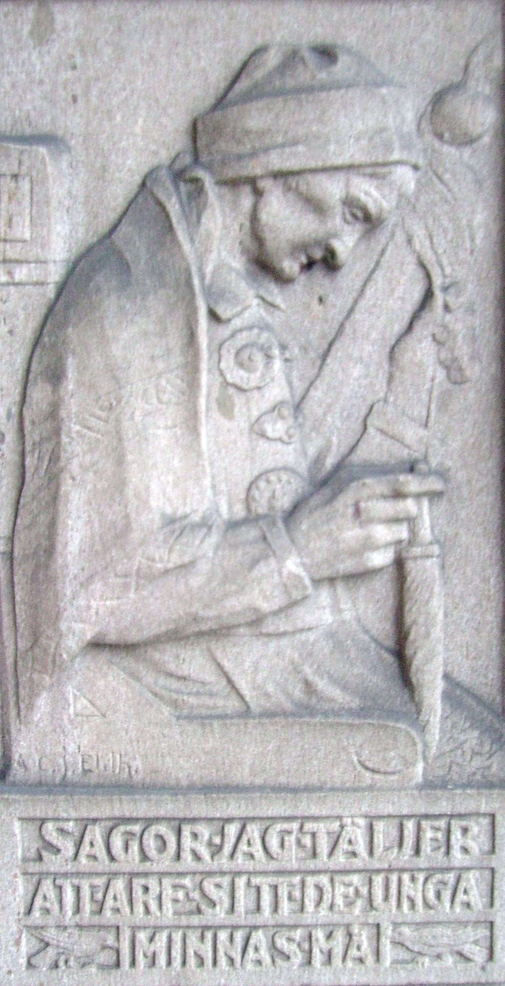 Picture of Carl Eldh's monument at Nordiska museet